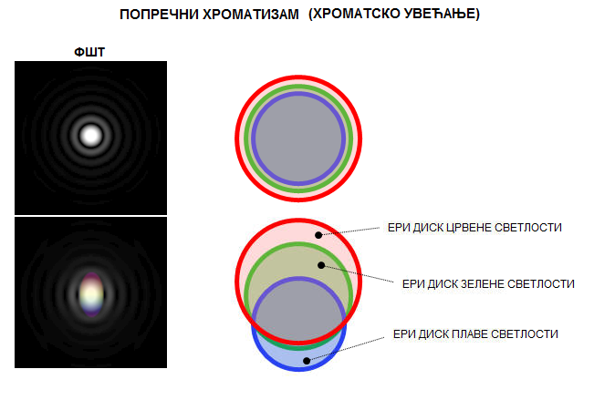 ПОПРЕЧНИ ХРОМАТИЗАМ, СЛИКОВНИ ПРИКАЗ